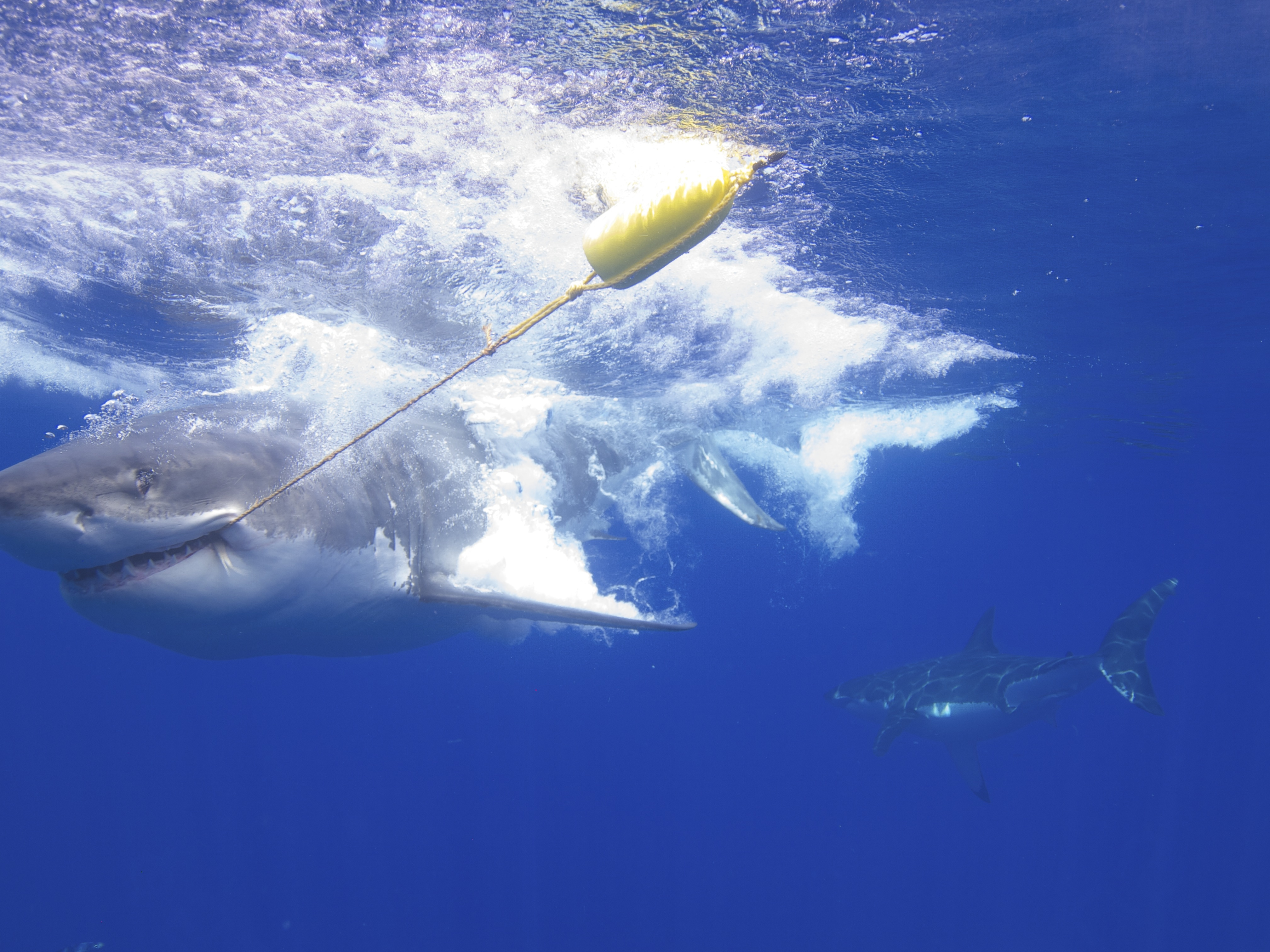 Great White Shark